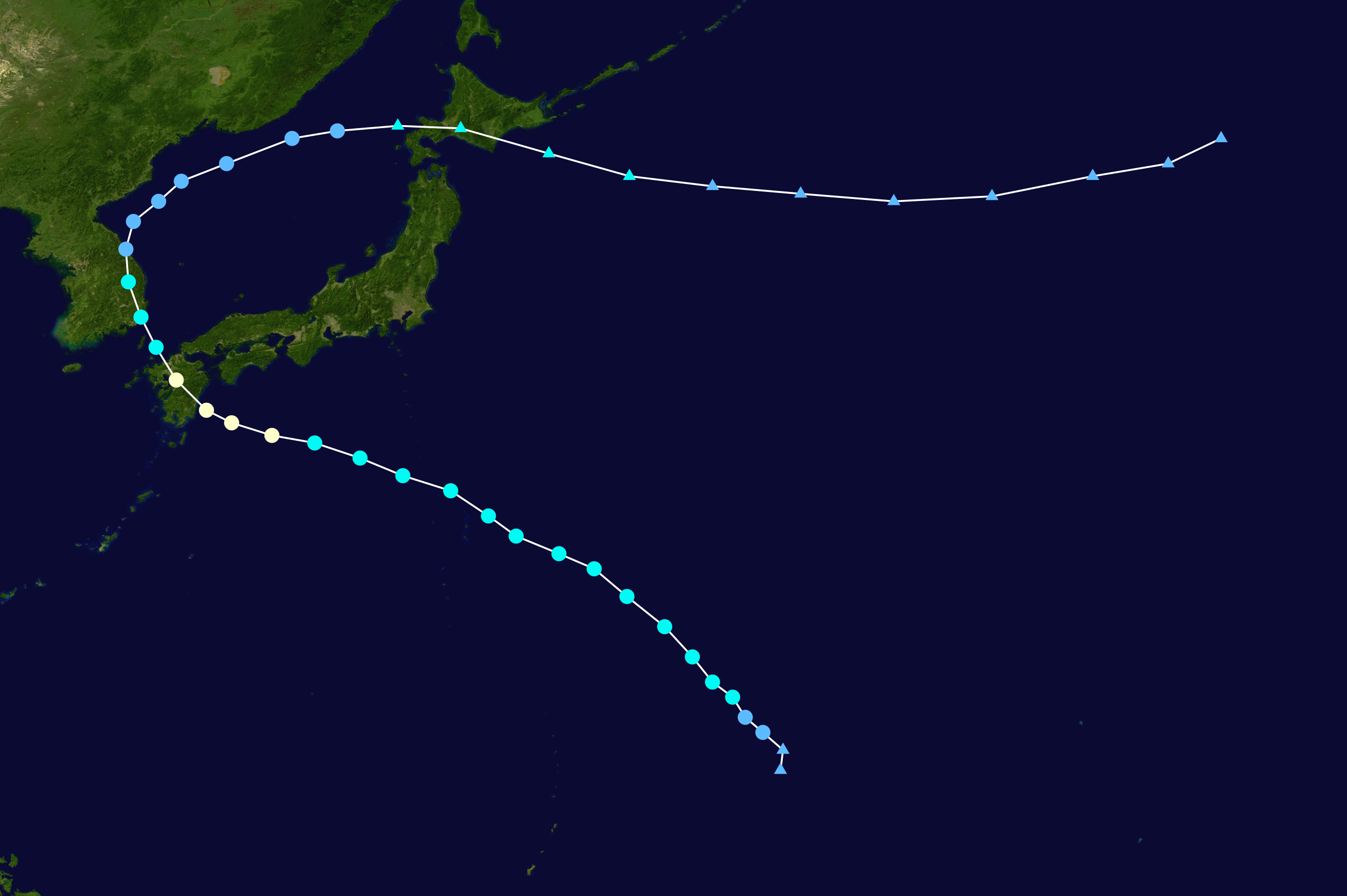 Track map of Typhoon Francisco of the 2019 Pacific typhoon season. The points show the location of the storm at 6-hour intervals. The colour represents the storm's maximum sustained wind speeds as classified in the Saffir–Simpson scale (see below), and the shape of the data points represent the nature of the storm, according to the legend below. Saffir–Simpson scale Tropical depression≤38 mph≤62 km/h Category 3111–129 mph178–208 km/h Tropical storm39–73 mph63–118 km/h Category 4130–156 mph209–251 km/h Category 174–95 mph119–153 km/h Category 5≥157 mph≥252 km/h Category 296–110 mph154–177 km/h Unknown Storm type Tropical cyclone Subtropical cyclone Extratropical cyclone / Remnant low / Tropical disturbance / Monsoon depression